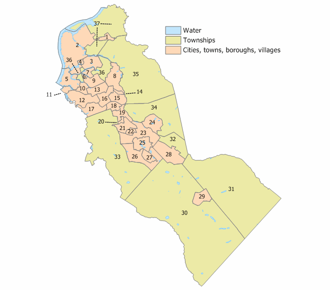 Camden County, New Jersy Municipalities